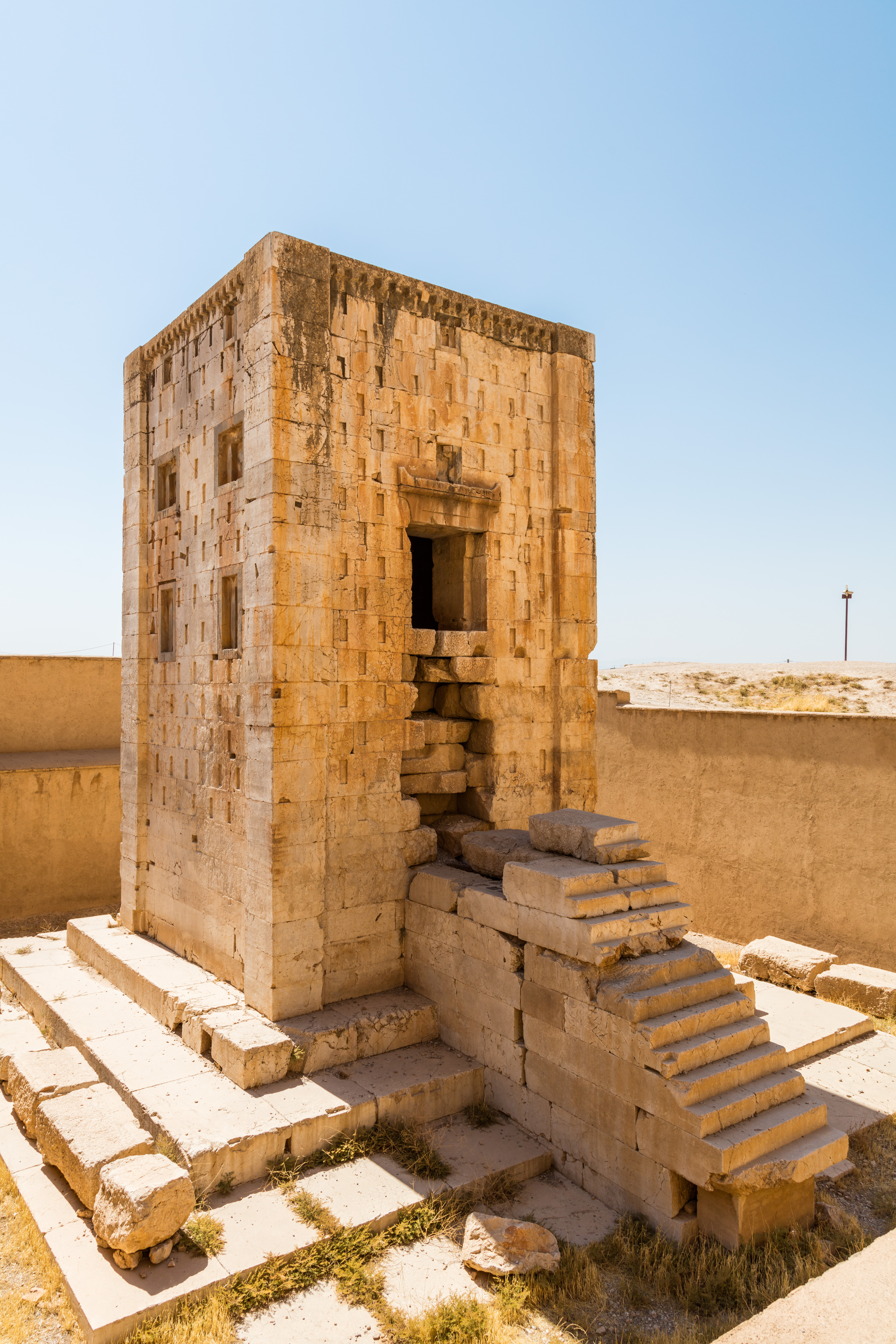 Naghsh-e rostam, Iran